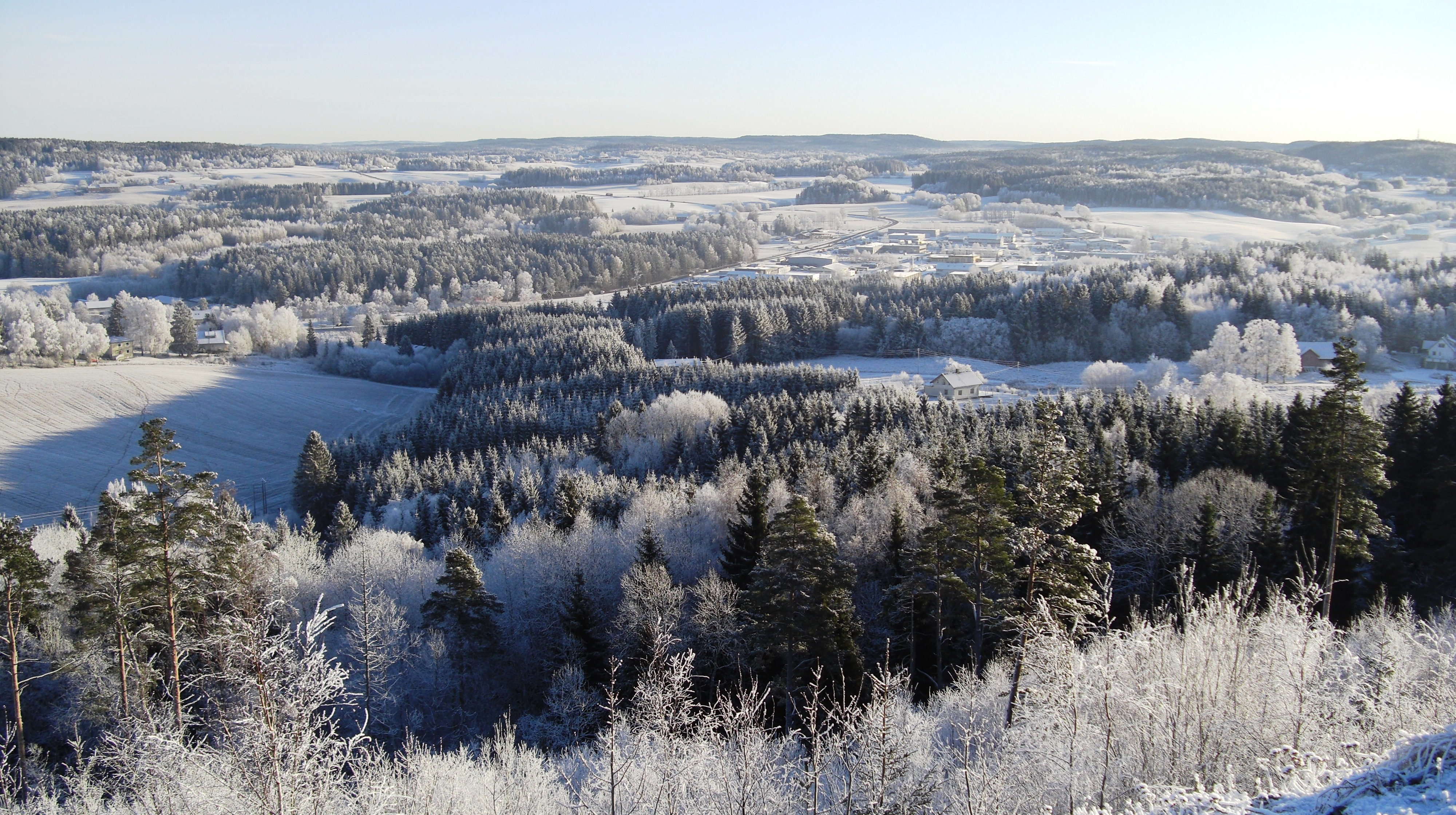 View of Hærland